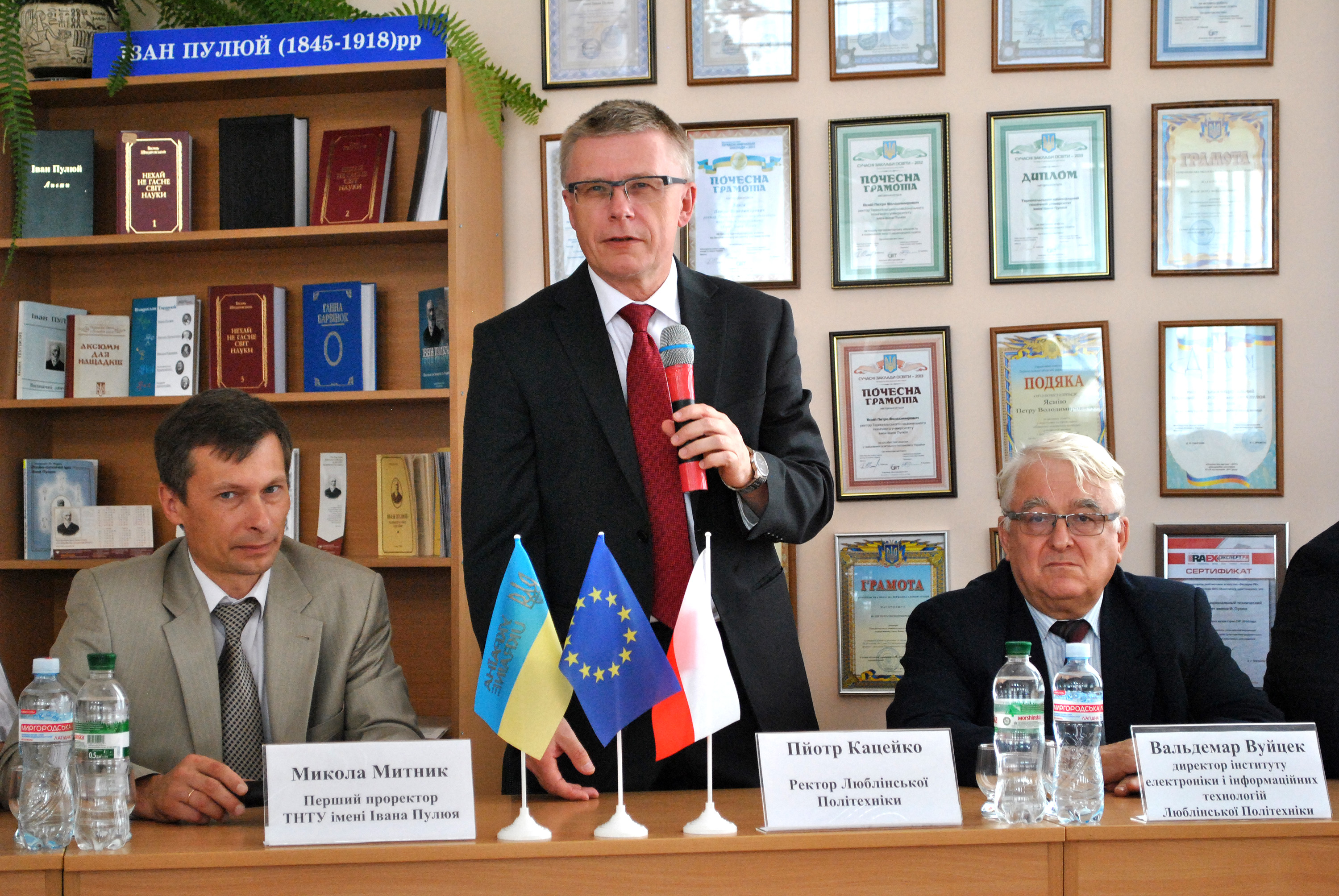 Piotr Kacejko, rector Lublin University of Technologyj